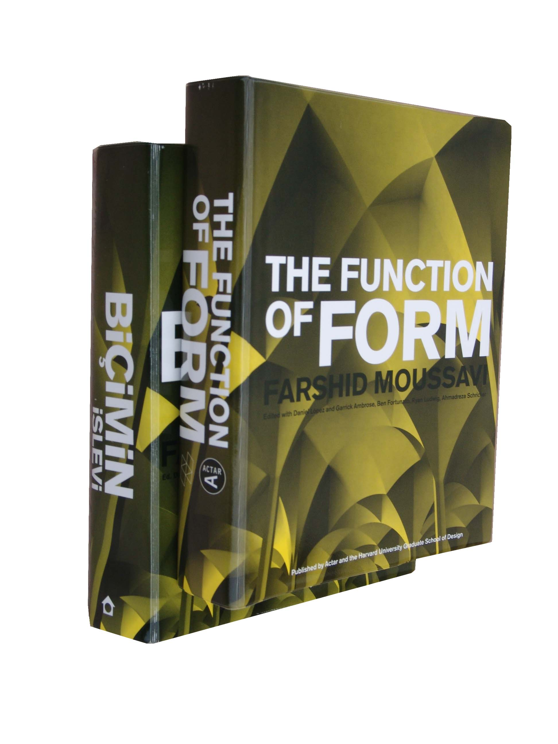 Photograph of translated versions of the Function of Form by Farshid Moussavi (Turkish and English).